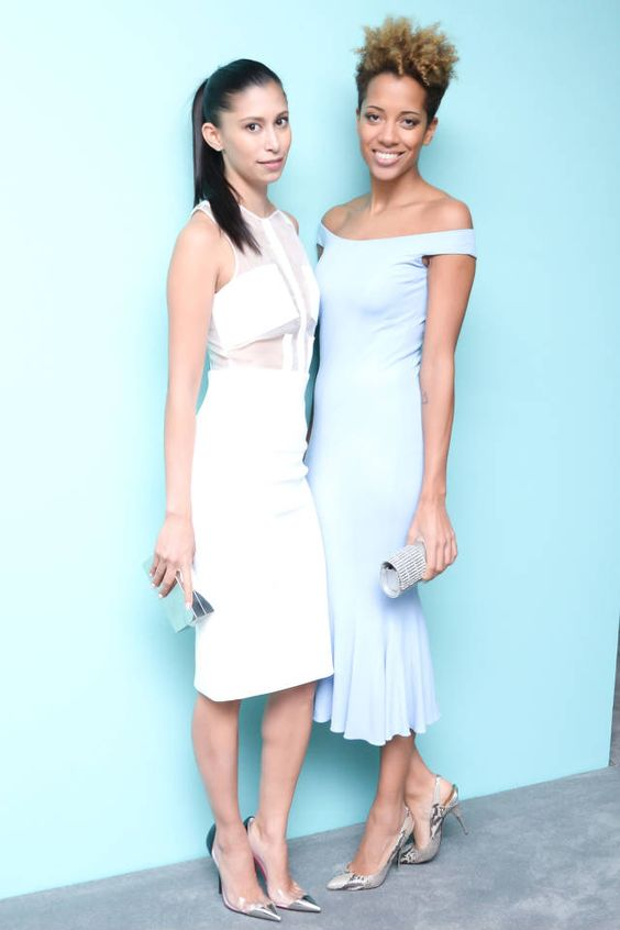 Michelle Ochs and Carly Cushnie, the designers behind Cushnie et Ochs